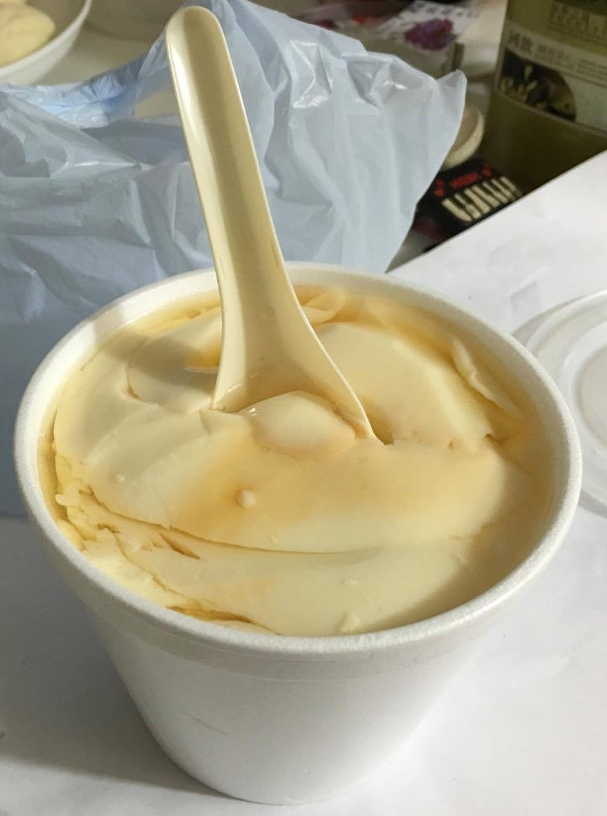 Bean curd flower